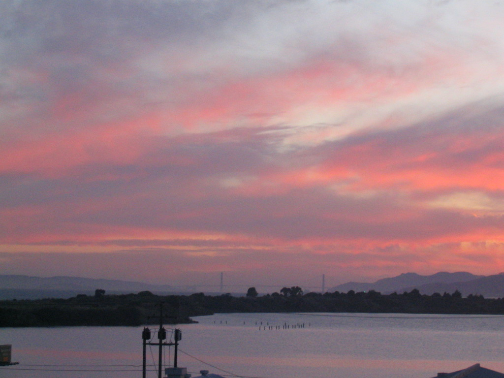 View of Golden Gate Bridge and San Francisco Bay, from west side of Albany Hill. Photo Taken in September 2005.